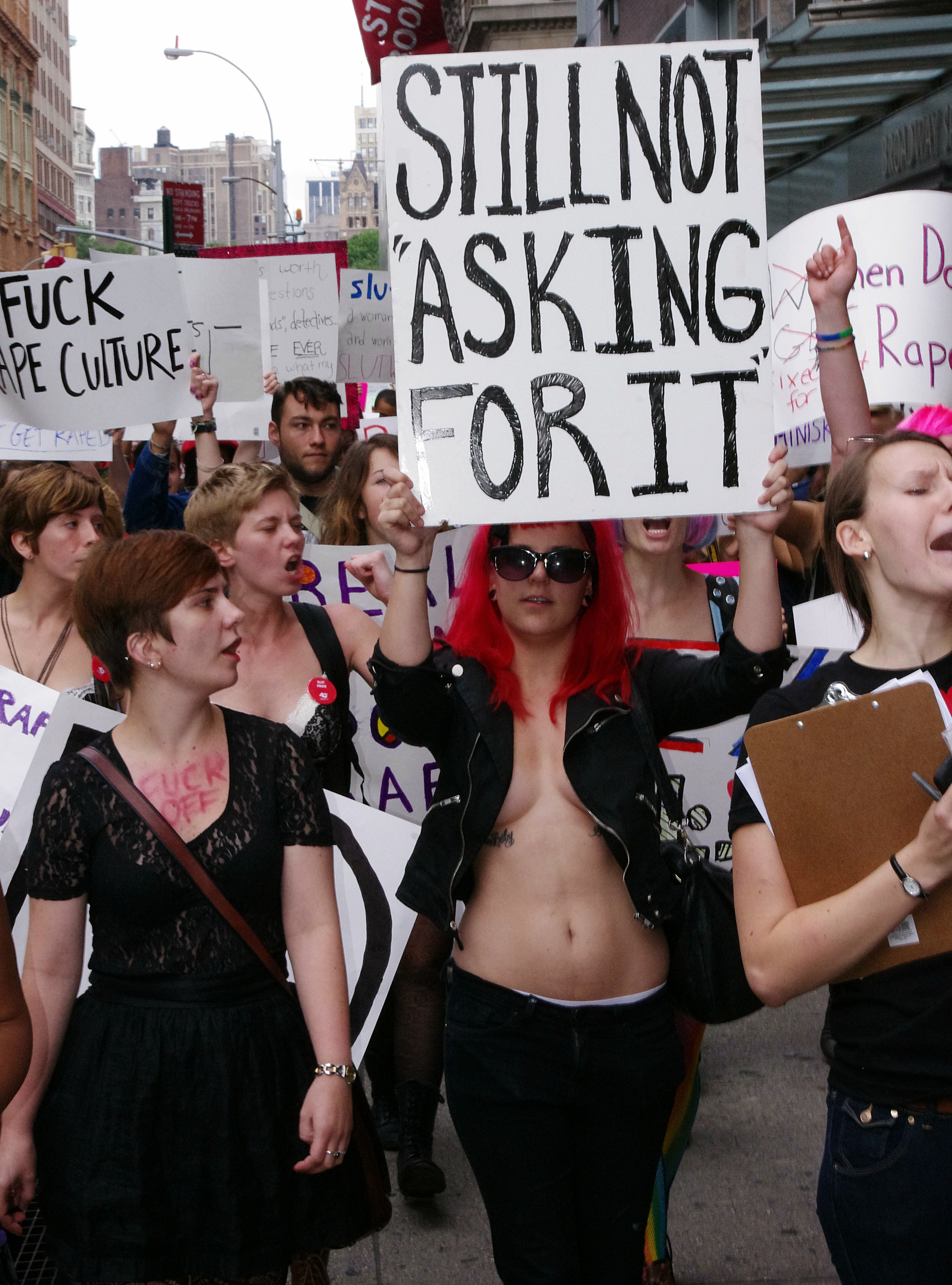 Photos from SlutWalk NYC on Saturday in Manhattan's Union Square.